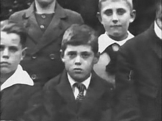 Adolf Eichmann Younger 1916 Source Adolf Eichmann: Engineer of Death by Ruth Sachs; History of the SS By G. S. Graber; Eichmann in Jerusalem: A Report on the Banality of Evil by Hannah Arendt; Genocide: An Anthropological Reader by Alexander Laban Hinton; Author Ronald Leo Ricado